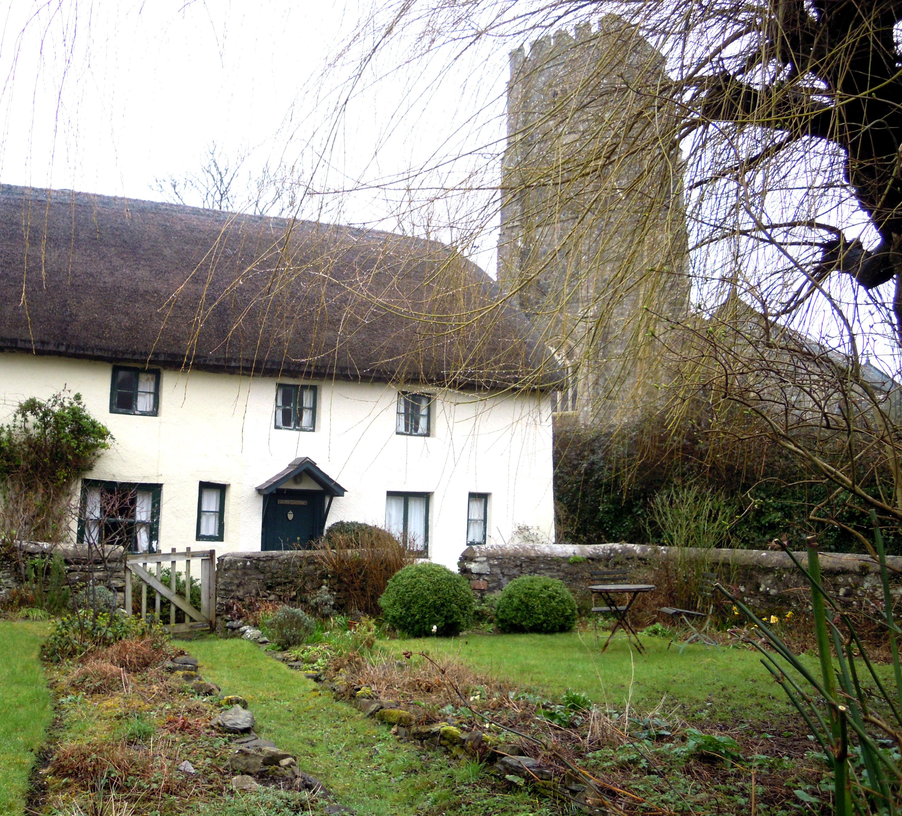 Skirr Cottage in Georgeham, where Henry Williamson first lived in the village. He is buried in the churchyard just visible in the photograph